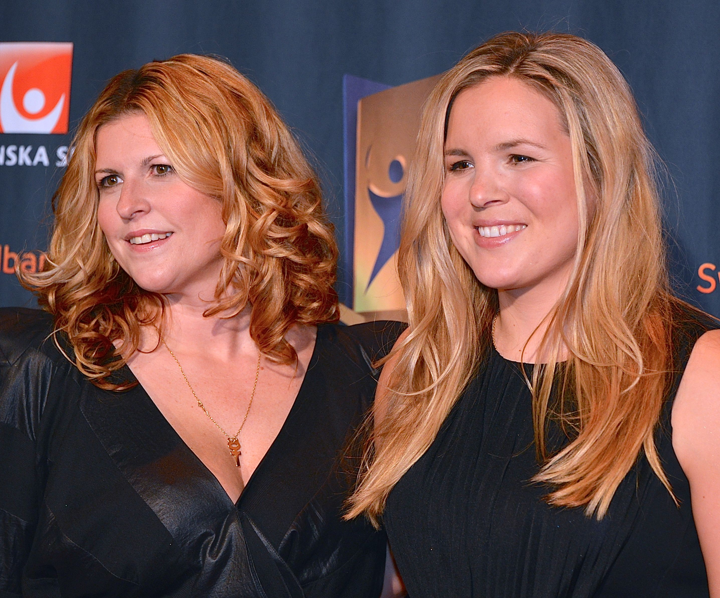 Filippa Rådin och Anja Pärson on Idrottsgalan at the Globe Arena in Stockholm on January 14th 2013.